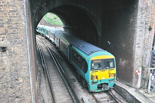 BREL (York) Class 465 750v dc 3rd rail Standard Mk.III inner-suburban 2-car emu No.456 005 of Southern enters Crystal Palace Low Level on a London Bridge - West Croydon service; 06/09.